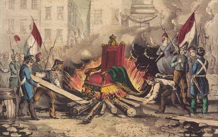 The throne of king Louis Philippe is burned in the place de la Bastille, at the foot of the July Column, during the French revolution of 1848, Paris 25th February 1848